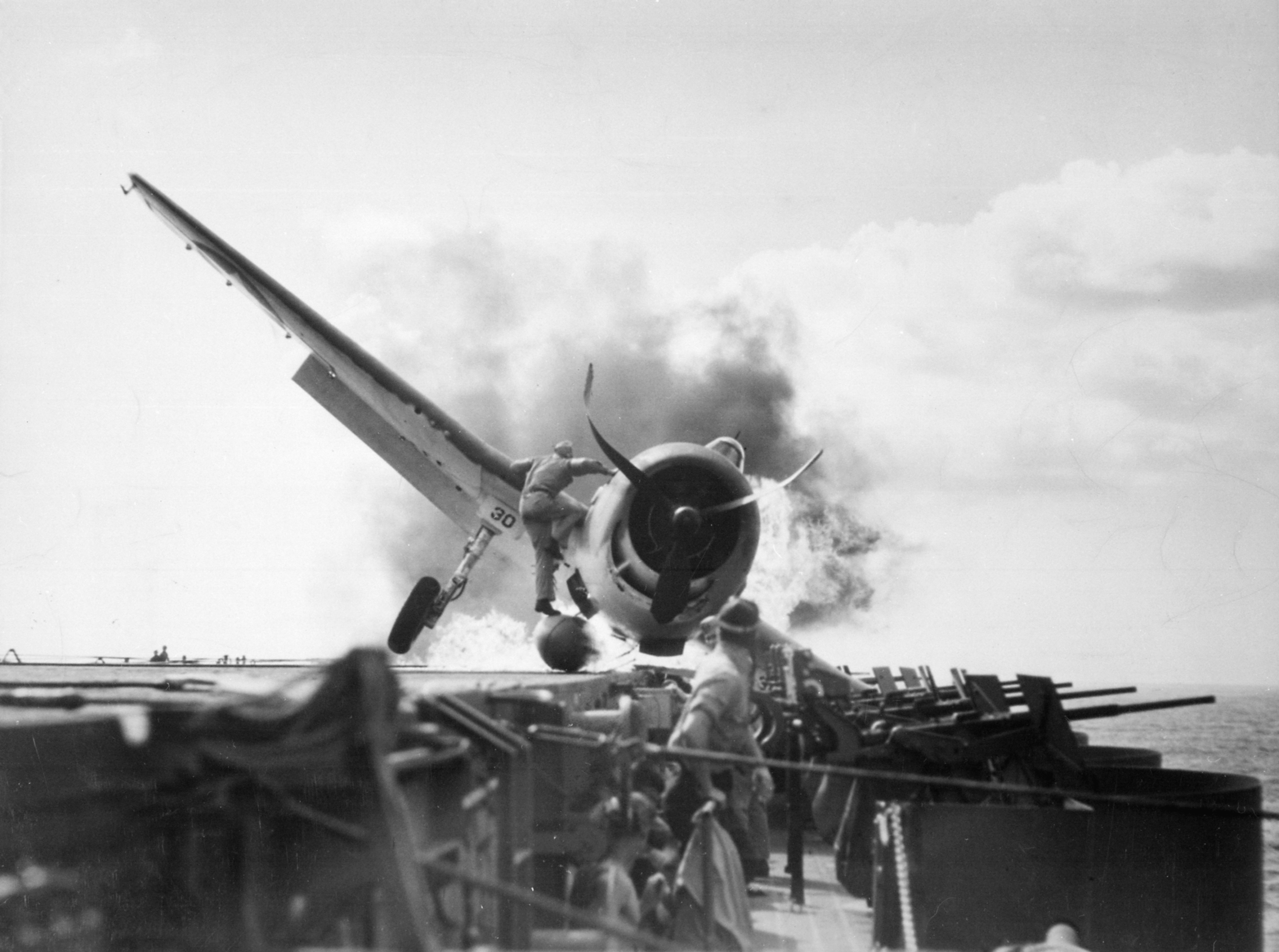 Crash landing of a U.S. Navy Grumman F6F-3 Hellcat (Number 30) of Fighting Squadron 2 (VF-2) aboard the aircraft carrier USS Enterprise (CV-6), into the carrier's port side 20mm gun gallery, 10 November 1943. Lieutenant Walter L. Chewning, Jr., USNR, the Catapult Officer, is seen climbing up the plane's side to assist the pilot from the burning aircraft. The pilot, Ensign Byron M. Johnson, escaped without significant injury. Enterprise was then en route to support the Gilberts Operation. Note the plane's ruptured belly fuel tank.